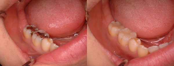 image of CEREC3D restoration